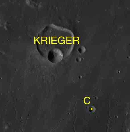 Part of the chart LAC-39 used for the presentation.